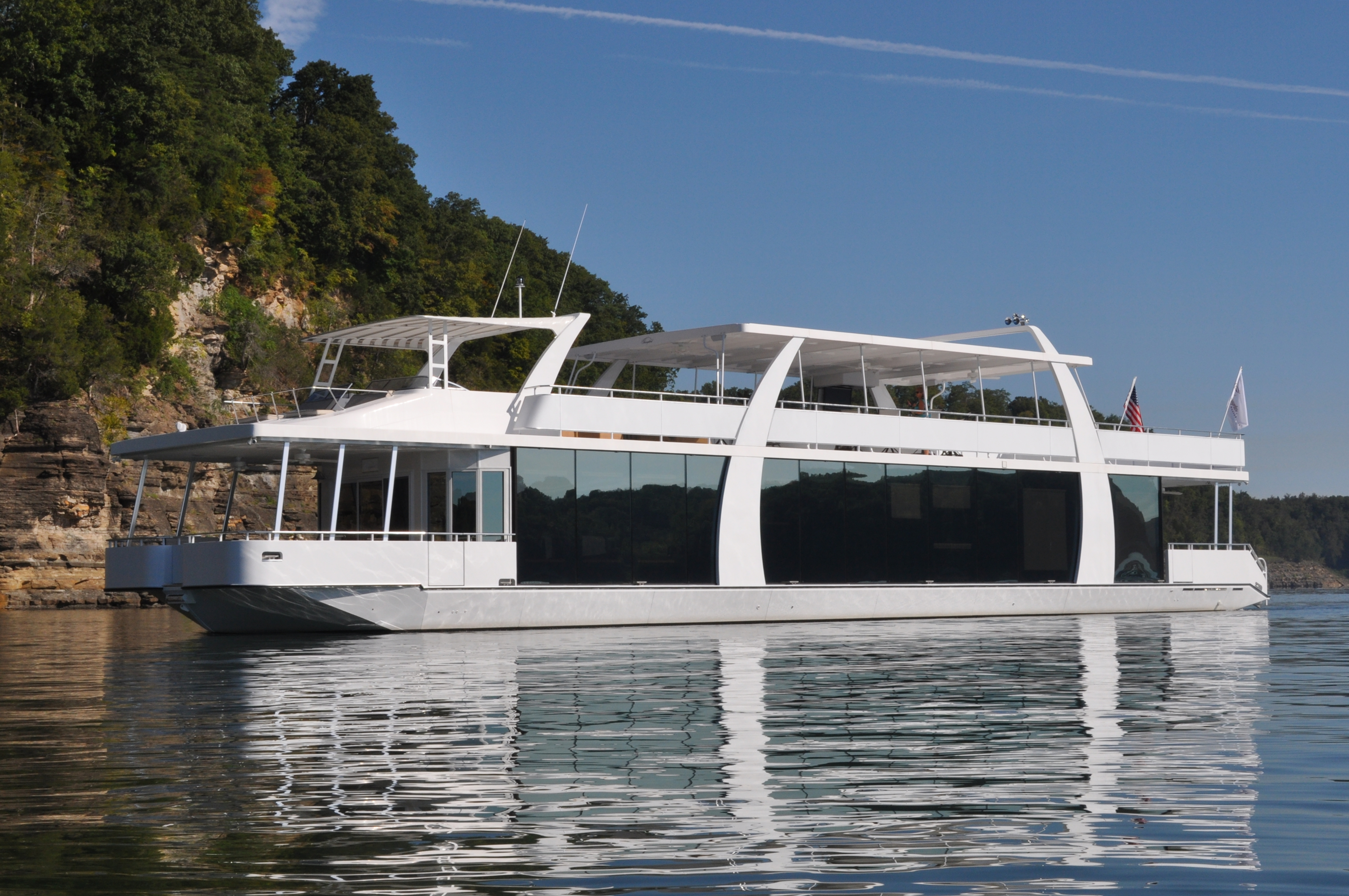 Houseboat, Lake Cumberland, Sept. 2010